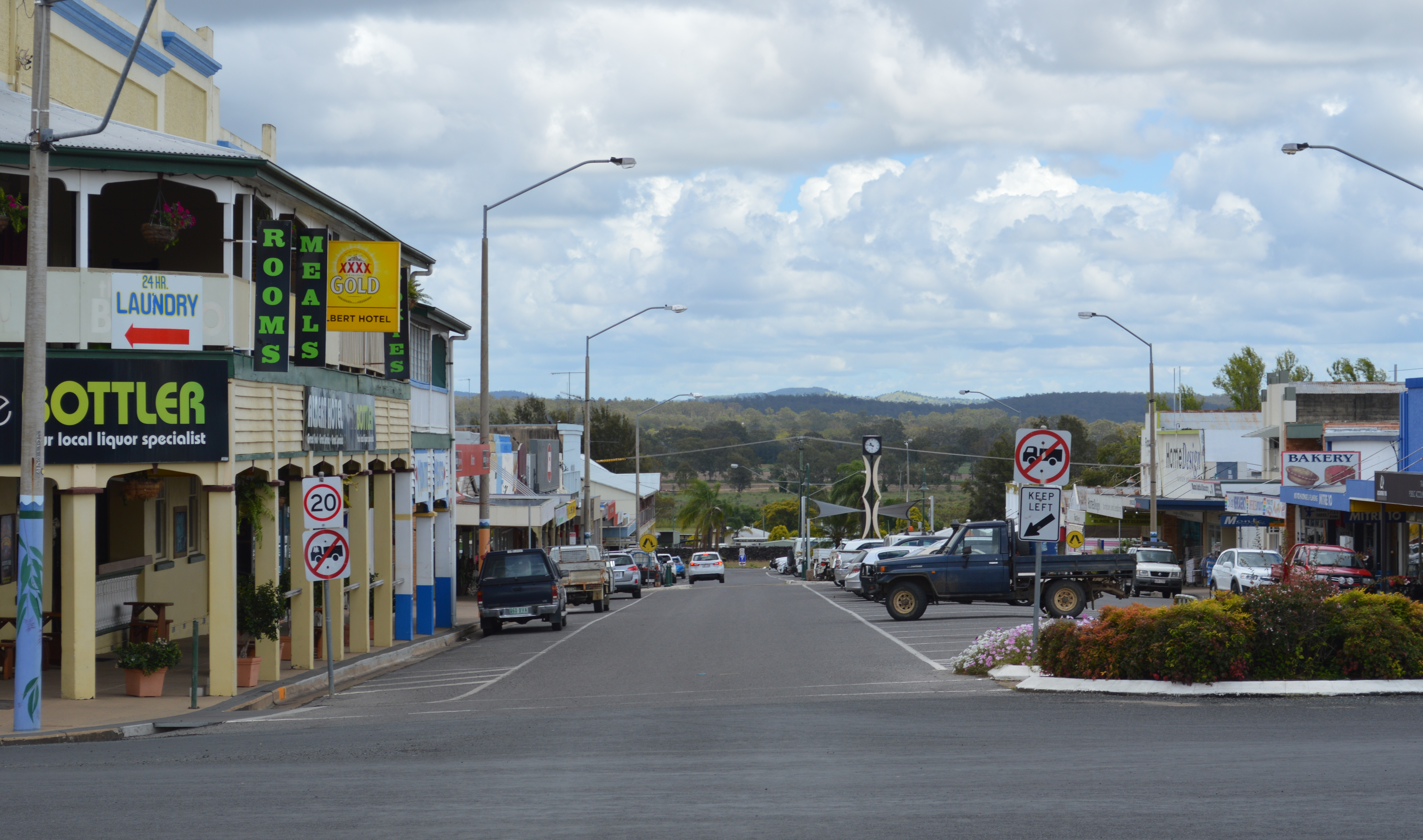 Newton Street, the main street of Monto, Queensland